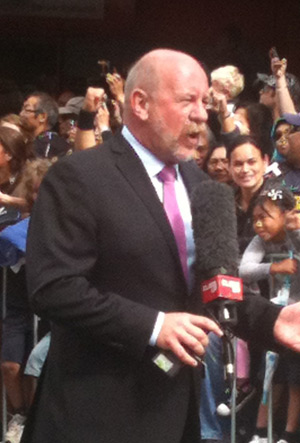 Mark Sainsbury does a piece to camera at the Rugby World Cup victory parade in Auckland, New Zealand, 24 October 2011